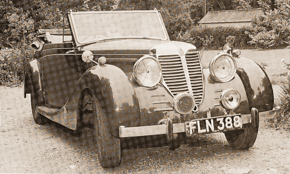 1939 Raymond Mays V8